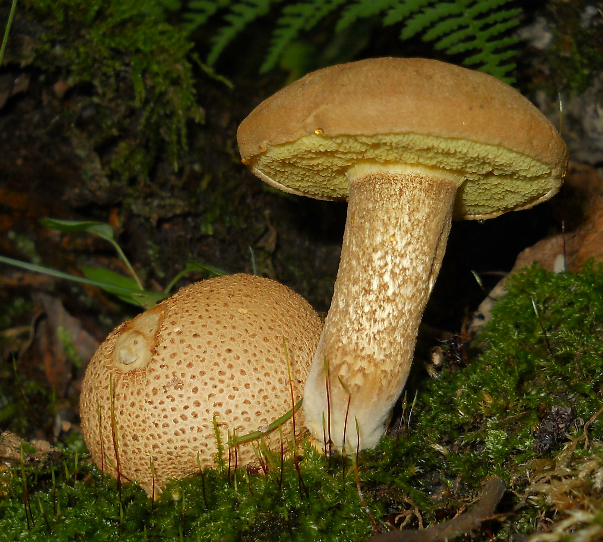 Pseudoboletus parasiticus (Bull.) Sutara Location: Westmoreland Co., Pennsylvania, USA For more information about this, see the observation page at Mushroom Observer.